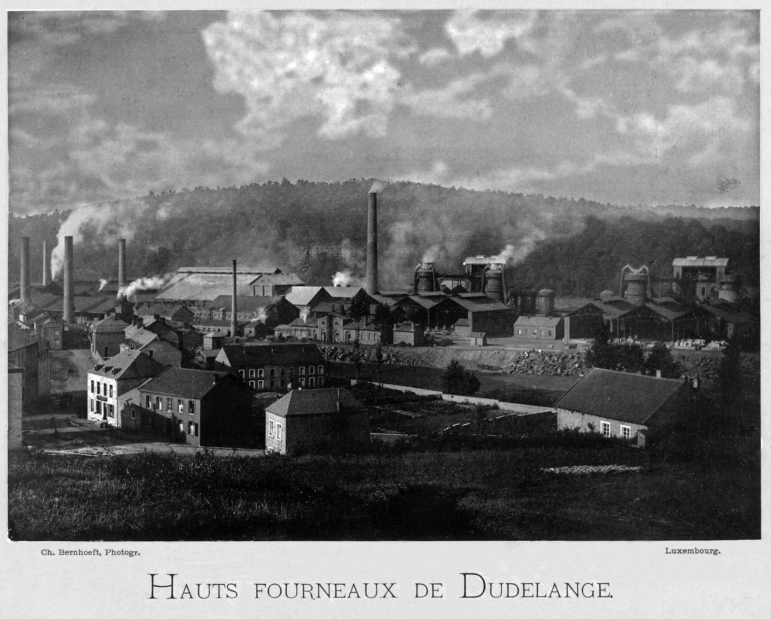 Ironworks in Dudelange, Luxembourg.